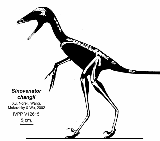 Skeletal restoration of Sinovenator changii